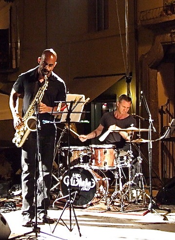 John B Arnold con Gary Thomas